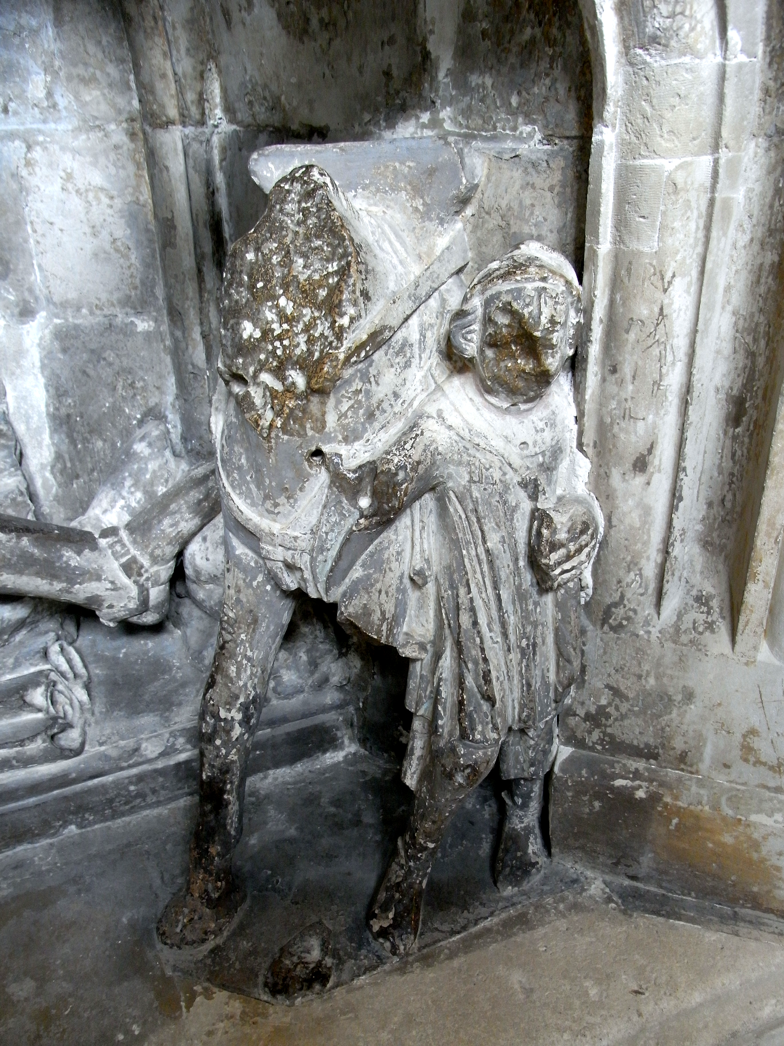 Horse and groom, detail from monument in Exeter Cathedral, Devon, to Sir Richard de Stapledon (d.1326) of Annery in the parish of Monkleigh, Devon.